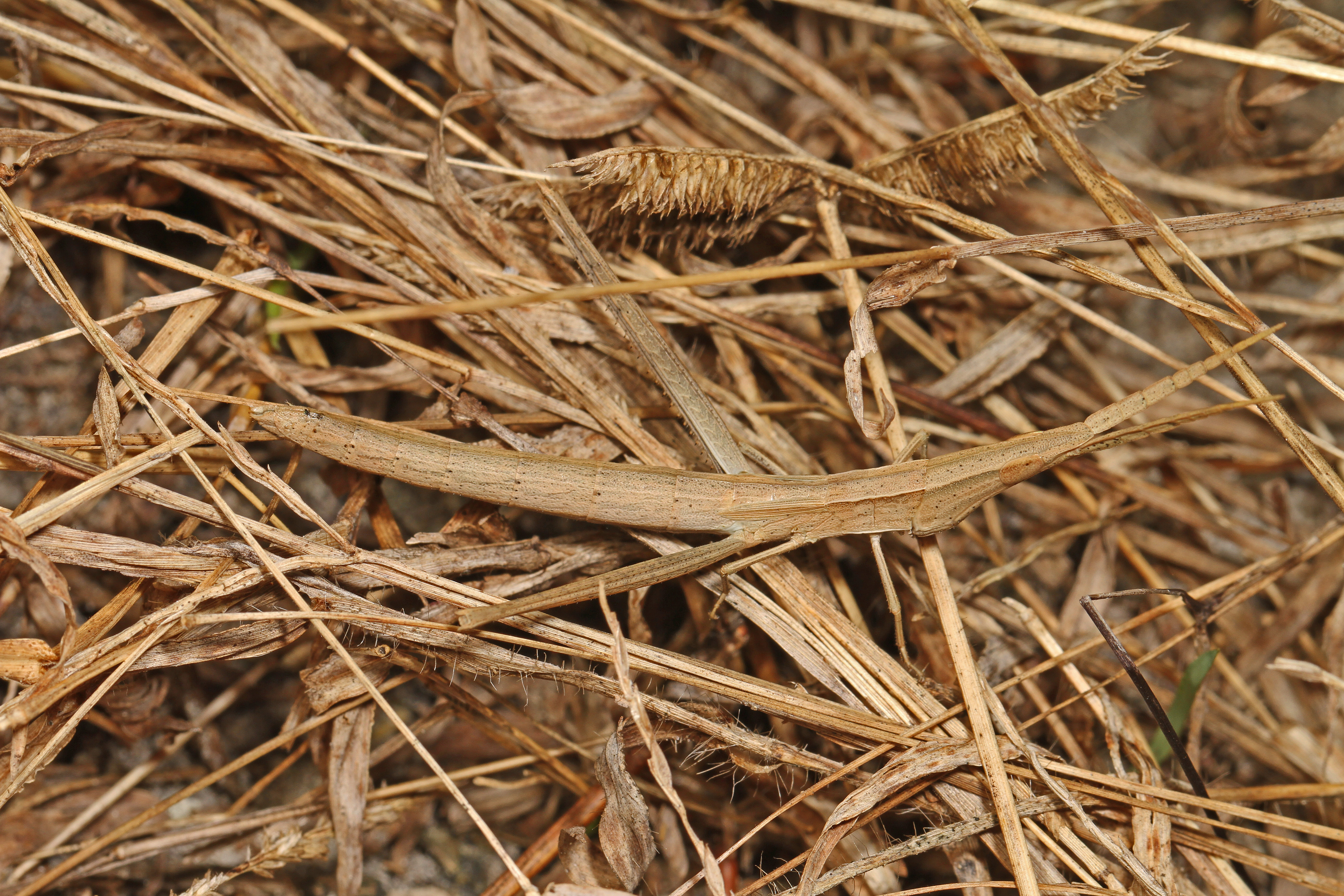 Long-headed Toothpick Grasshopper - Achurum carinatum, Lake June-in-Winter Scrub State Park, Lake Placid, Florida. Master of disguise - shape, color and texture all match its surroundings